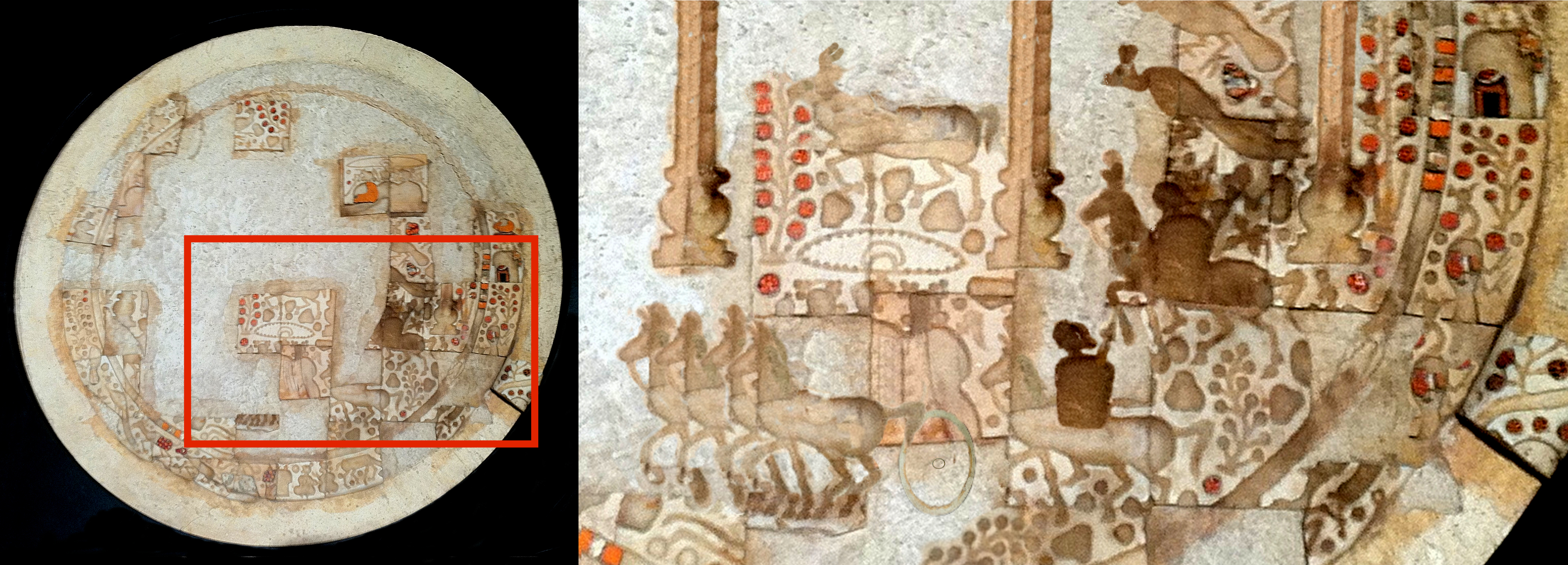 Sakuntala plate reconstitution. Photographical reconstitution of missing parts.